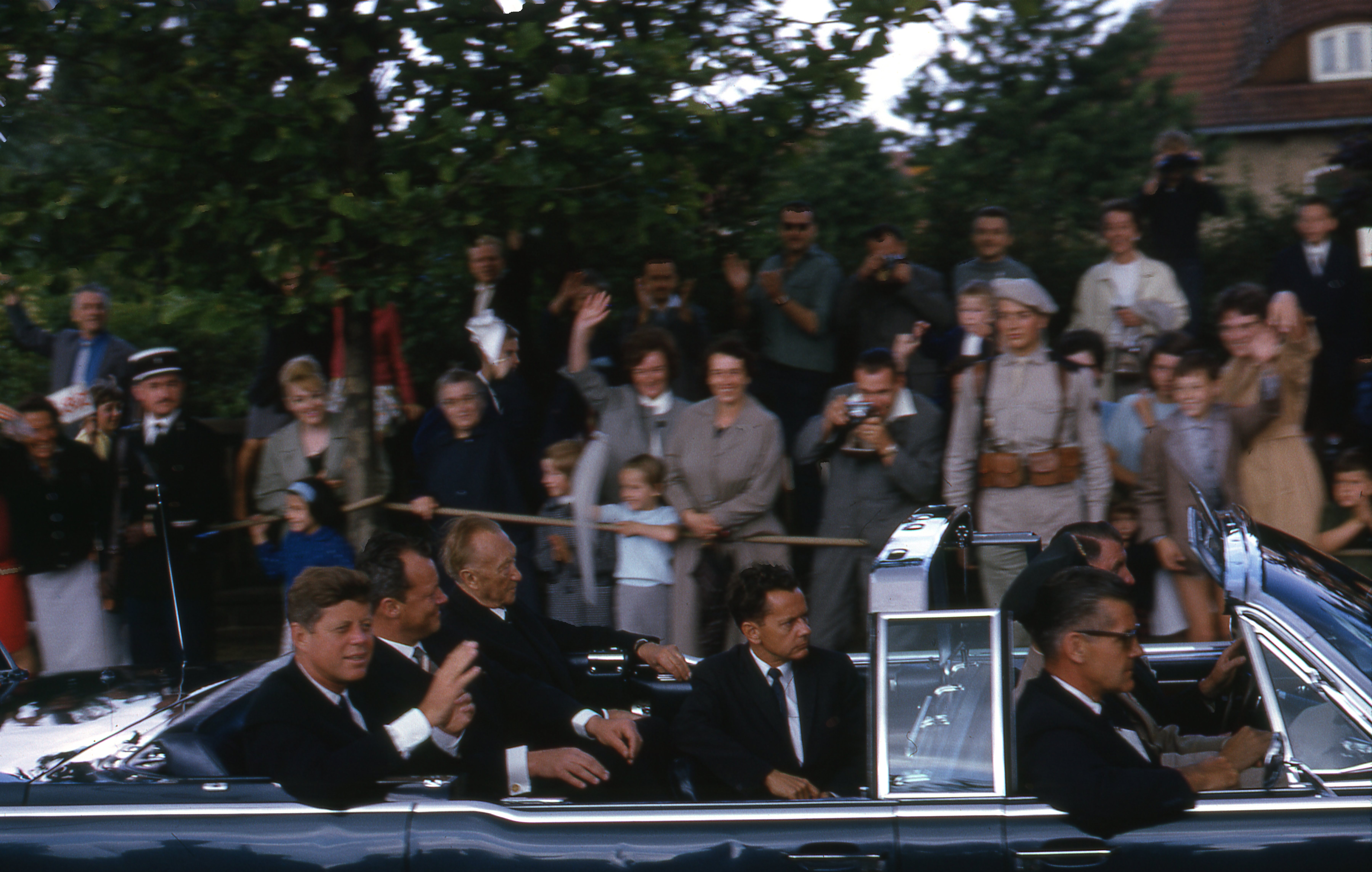 John Kennedy leaving Tegel Air Base (Berlin) with Chancellor Konrad Adenauer and Mayor Willy Brandt. En route to making "Ich bin ein Berliner" speech.